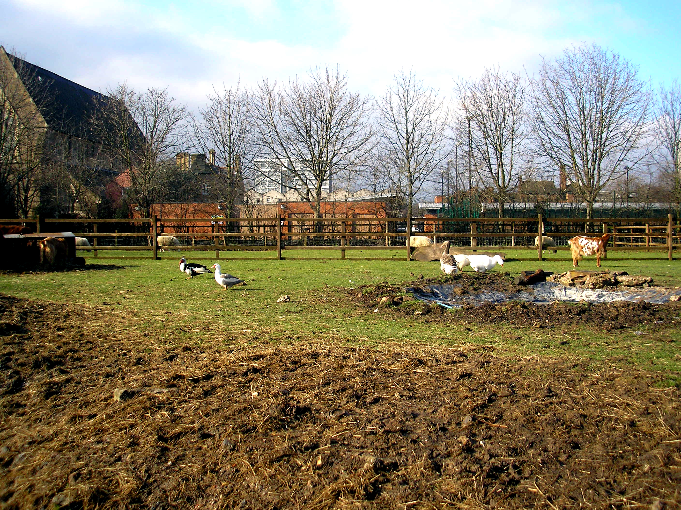 Haggerston: Hackney City Farm Geese and goats, and lots of other animals for kiddies to look at.